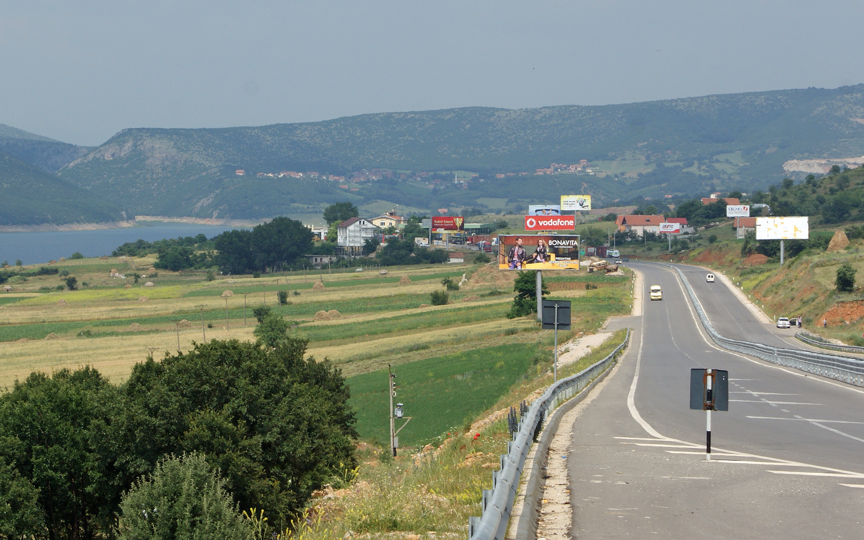 Albanian-Kosovar border-crossing of Morina-Vërmica